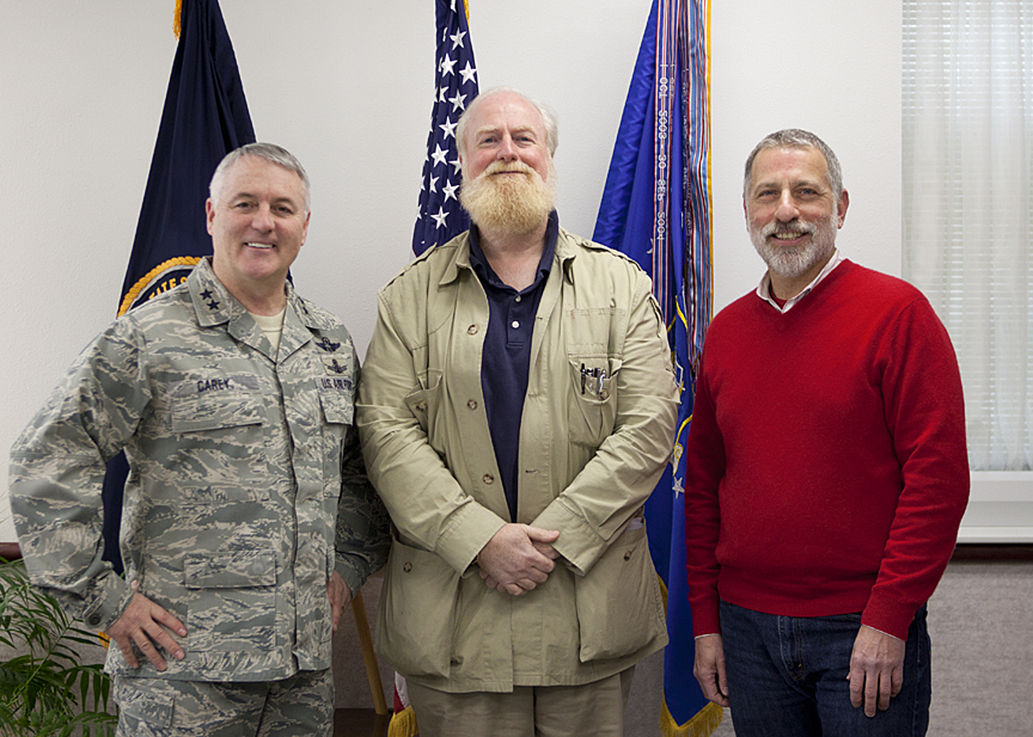 Maj. Gen. Michael Carey, 20th Air Force commander, poses for a photo with Eric Angelson, Vice President and Executive Producer of Applied Minds, LLC, and Bran Ferren, Co-Founder and Chief Creative Officer of Applied Minds, at the 20th AF headquarters Feb. 26. Applied Minds is a technology, design and research and development company.